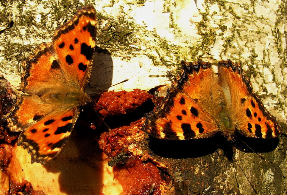 Nymphalis polychloros. Fam. Nymphalidae